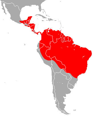 Lesser Doglike Bat (Peropteryx macrotis) range